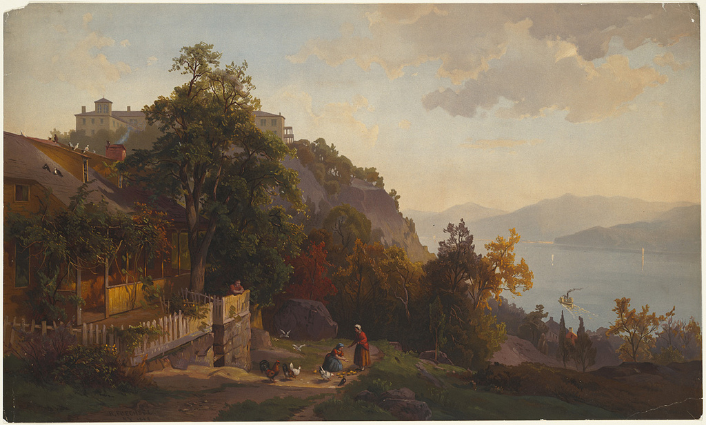 File name: 07_11_001430 Title: Feeding the Chickens by the River Creator/Contributor: Fuechsel, Hermann, 1833-1915 (artist); L. Prang & Co. (publisher) Date issued: 1861-1897 (approximate) Copyright date: Physical description note: Genre: Chromolithographs; Landscape prints Location: Boston Public Library, Print Department Rights: No known restrictions Flickr data on 2011-08-03: Camera: Sinar AG Sinarback 54 FW, Sinar m License: CC BY 2.0 User: Boston Public Library BPL